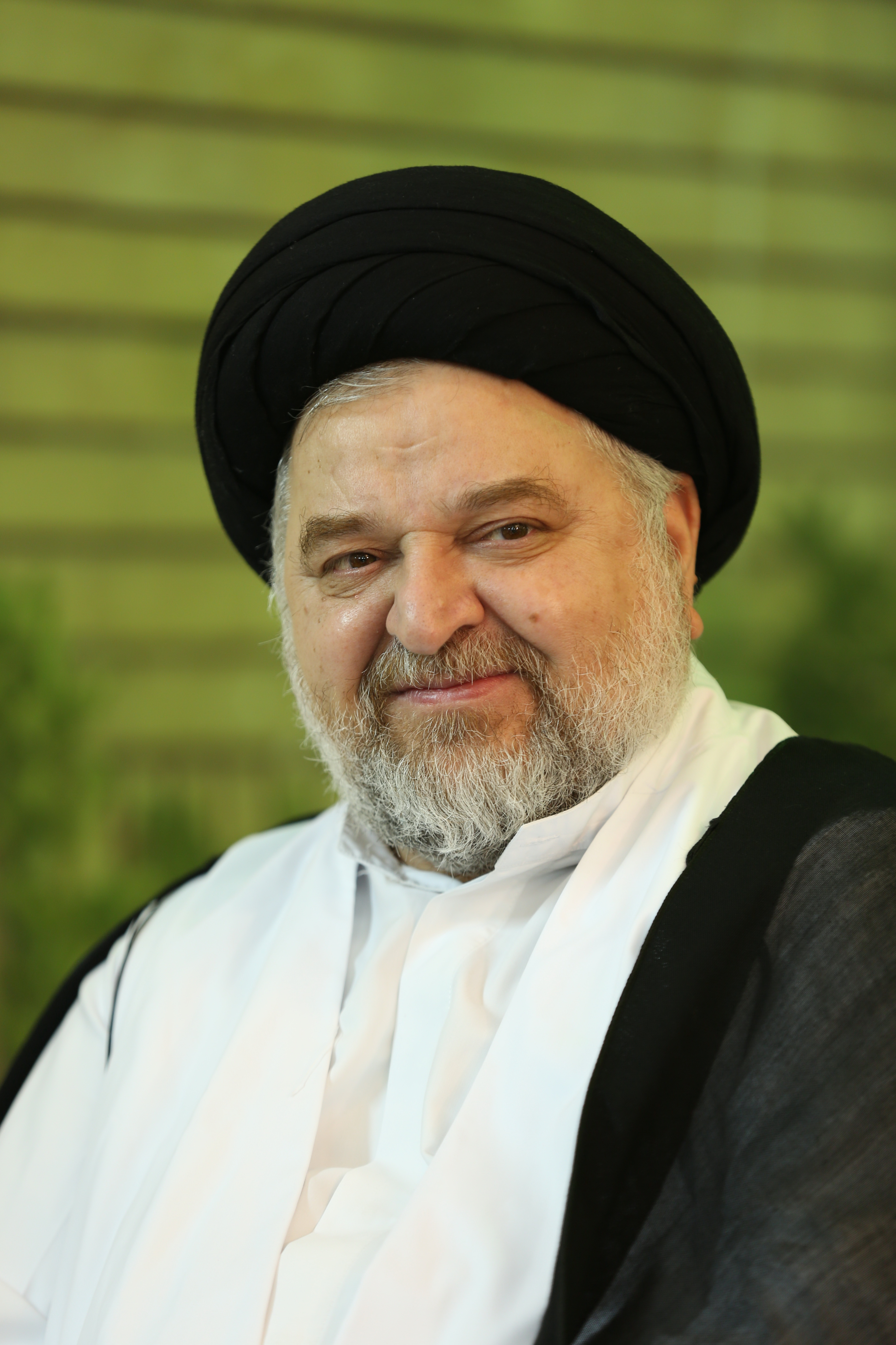 seyed jawad shahrestani